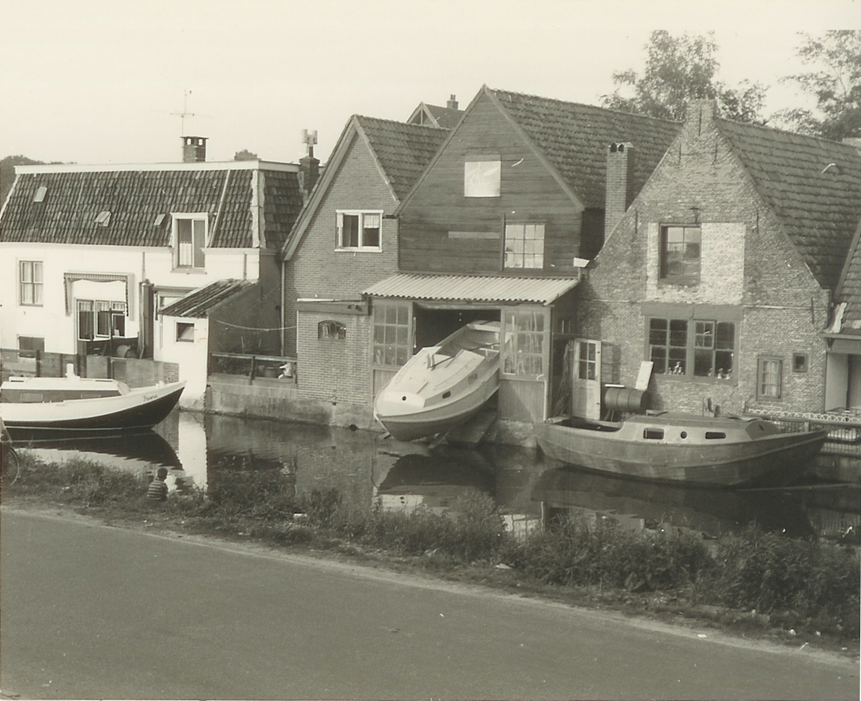 Launch of a Baarda Zeegrundel at the wharf in 's-Graveland, The Netherlands